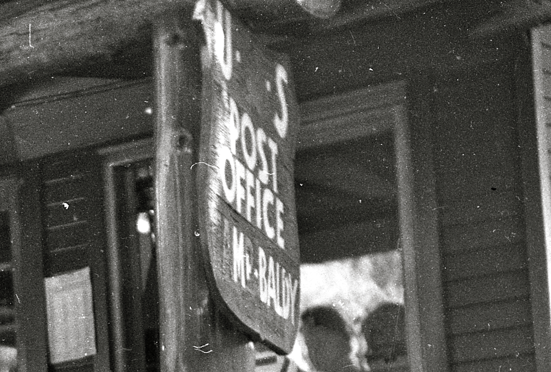 Post Office sign for Mount Baldy, about 1953 Other information Photo by George Garrigues